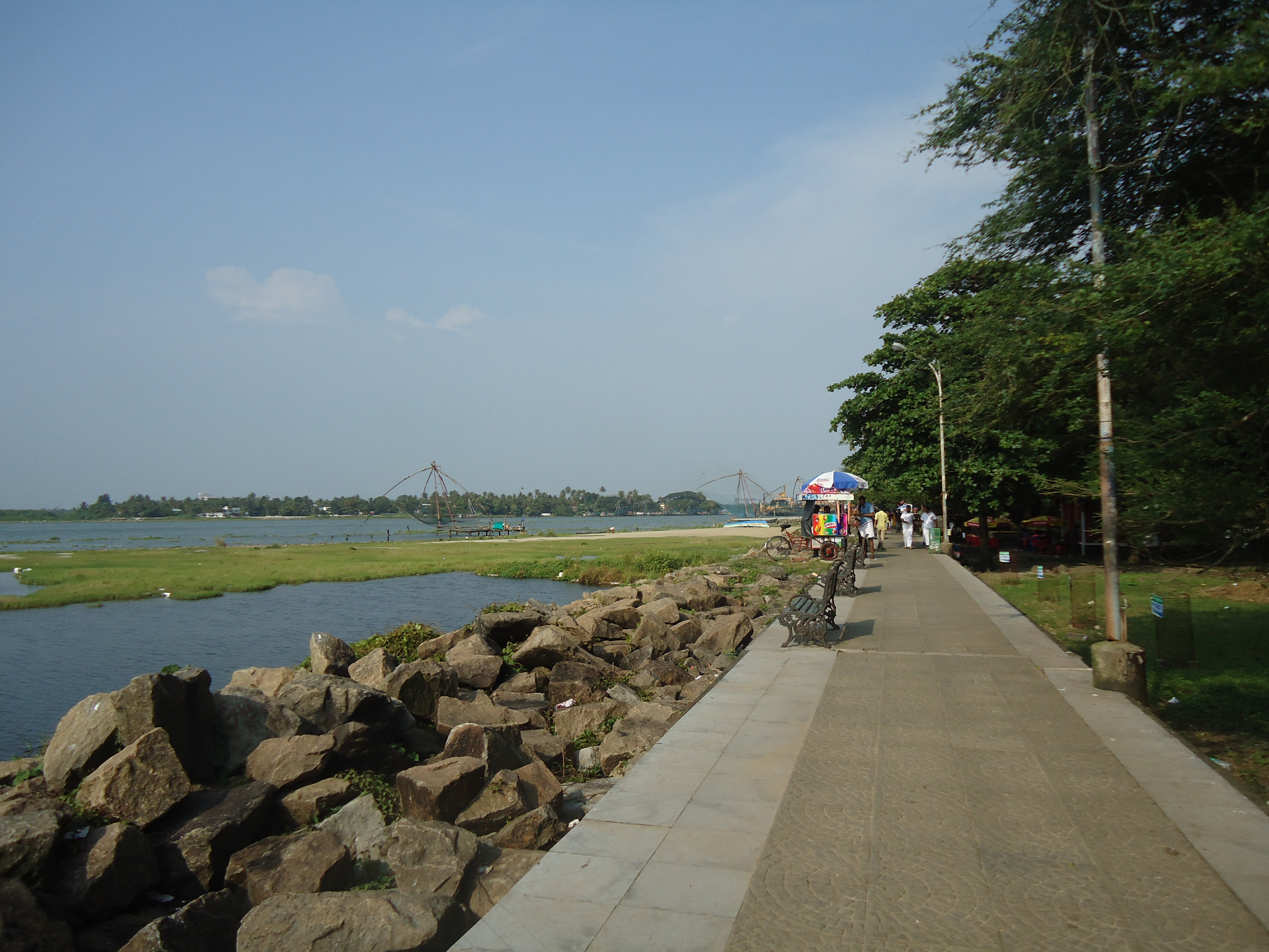 Wiki Hackathon Photo Walk Photos Fort Kochi Beach Walk Way